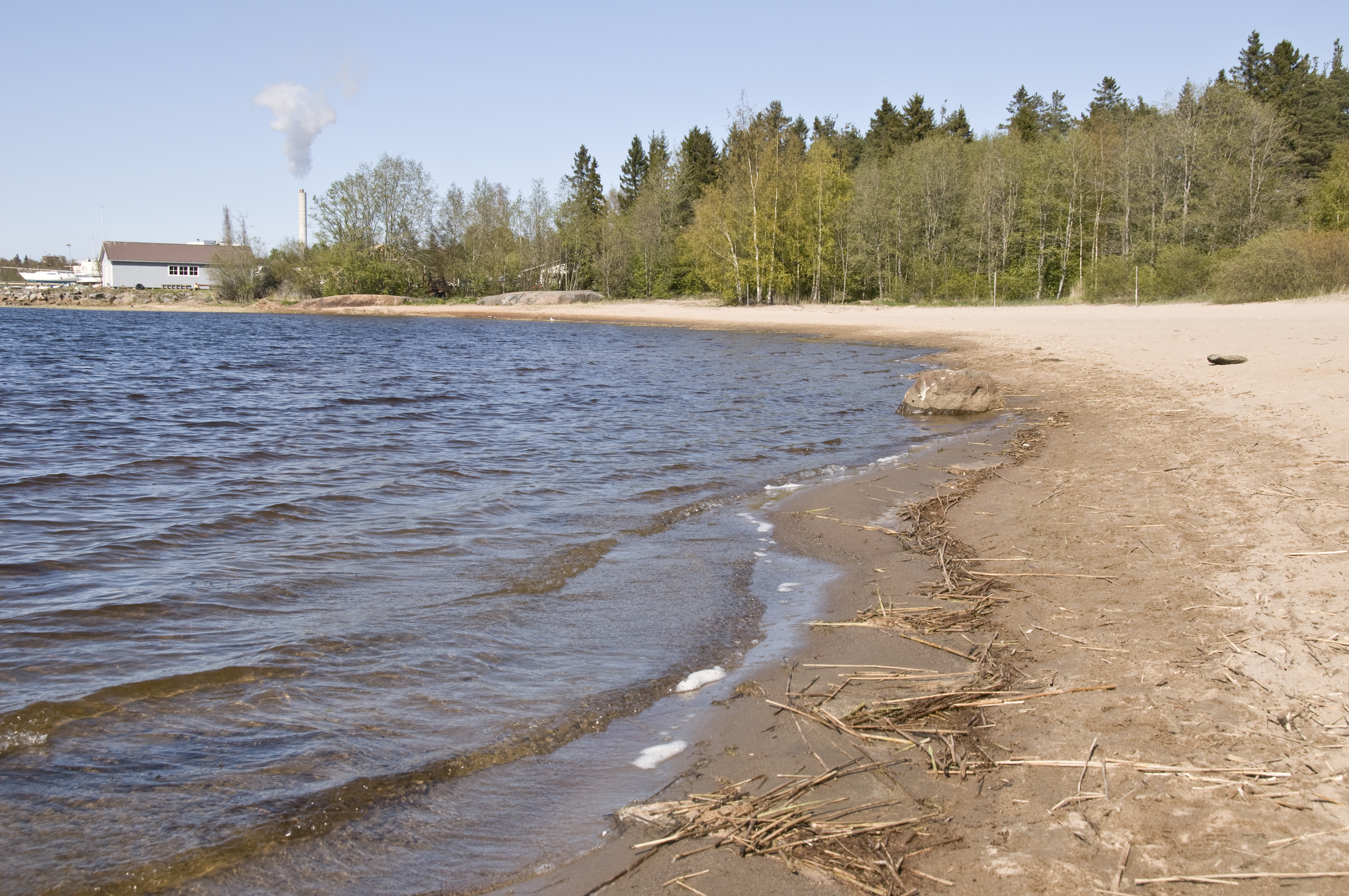 Beach at Gamla hamn ("Old port") in Jakobstad (Finnish: Pietarsaari), Finland